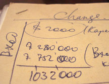 One of the first records with dram sign in the business scratches